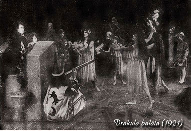 A Lost Movie: Dracula Halála, Hungary 1921